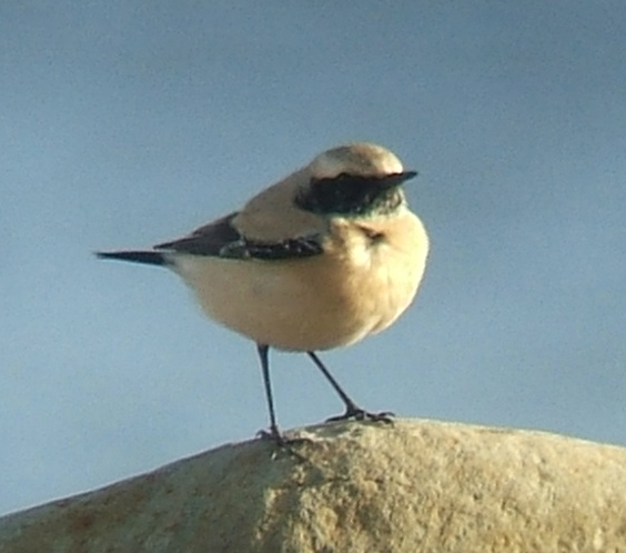 Oenanthe deserti, male in winter plumage, Newbiggin, Northumberland